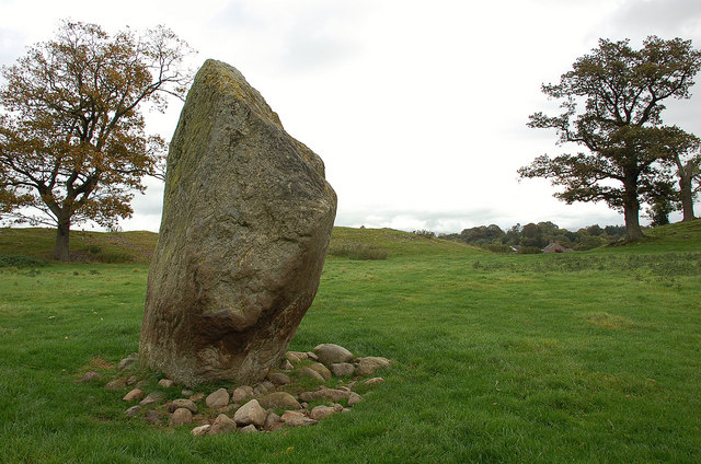 Central standing stone, Mayburgh Henge. The standing stone near the centre of this substantial area enclosed by an earth rampart - see 273923. By way of contrast, the M6 is only a matter of about 50 metres away.